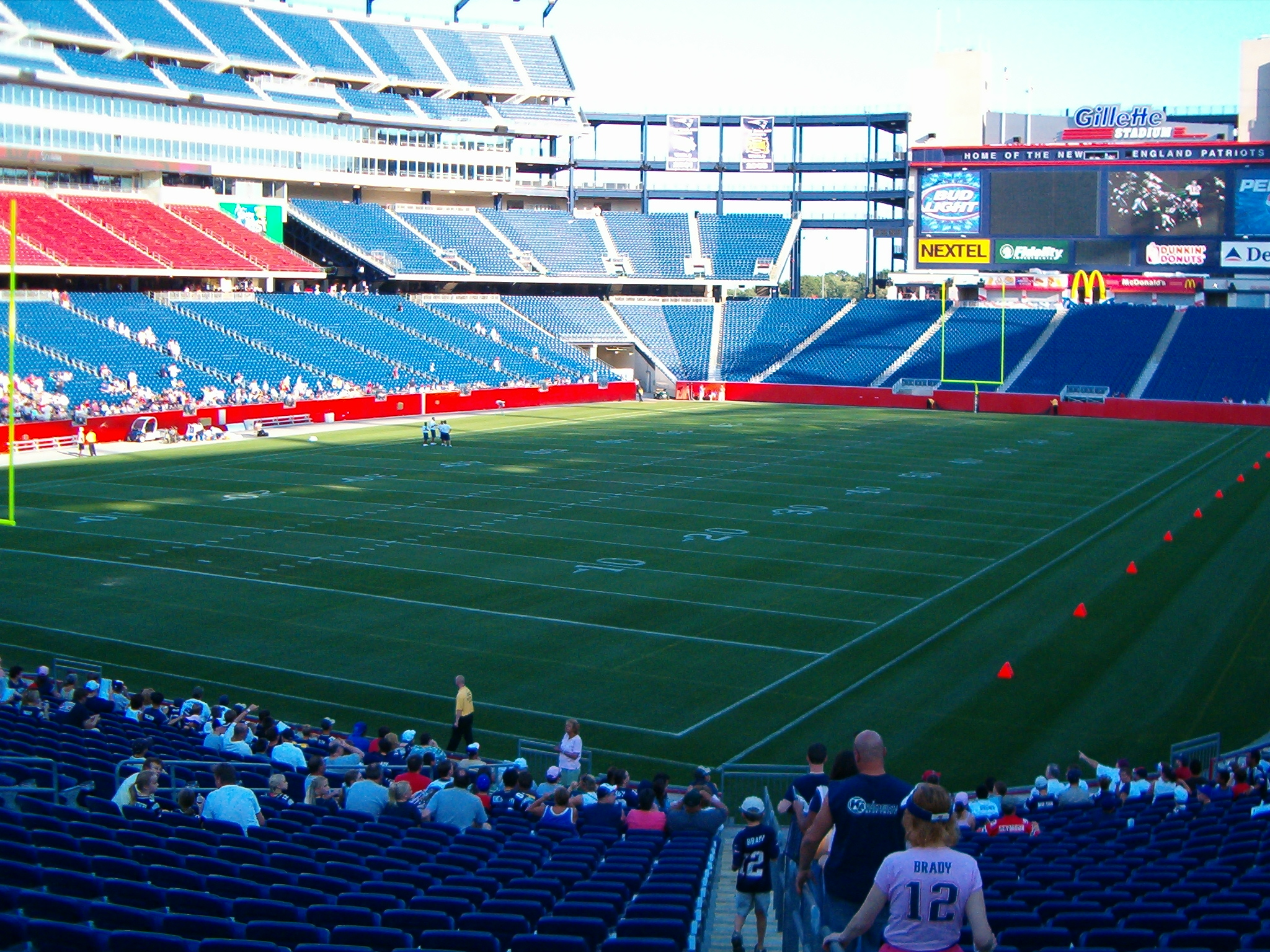 Gillette Stadium in Foxborough, Massachusetts, home of the New England Patriots.